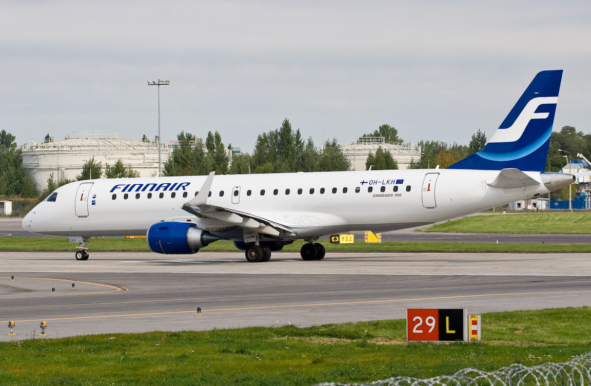 Finnair Embraer 190 at Warsaw Airport